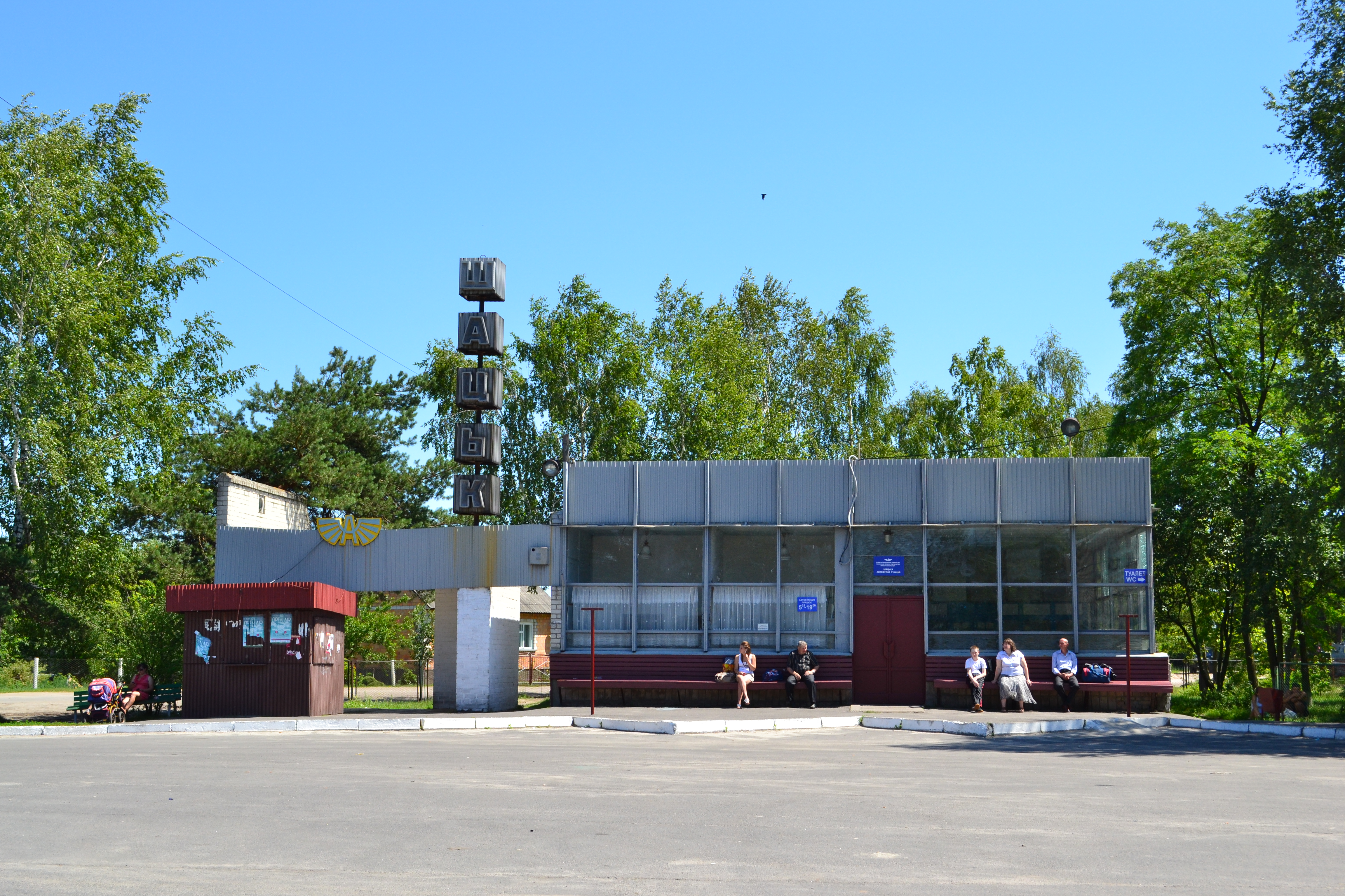 Bus station in the Shatsk, Ukraine